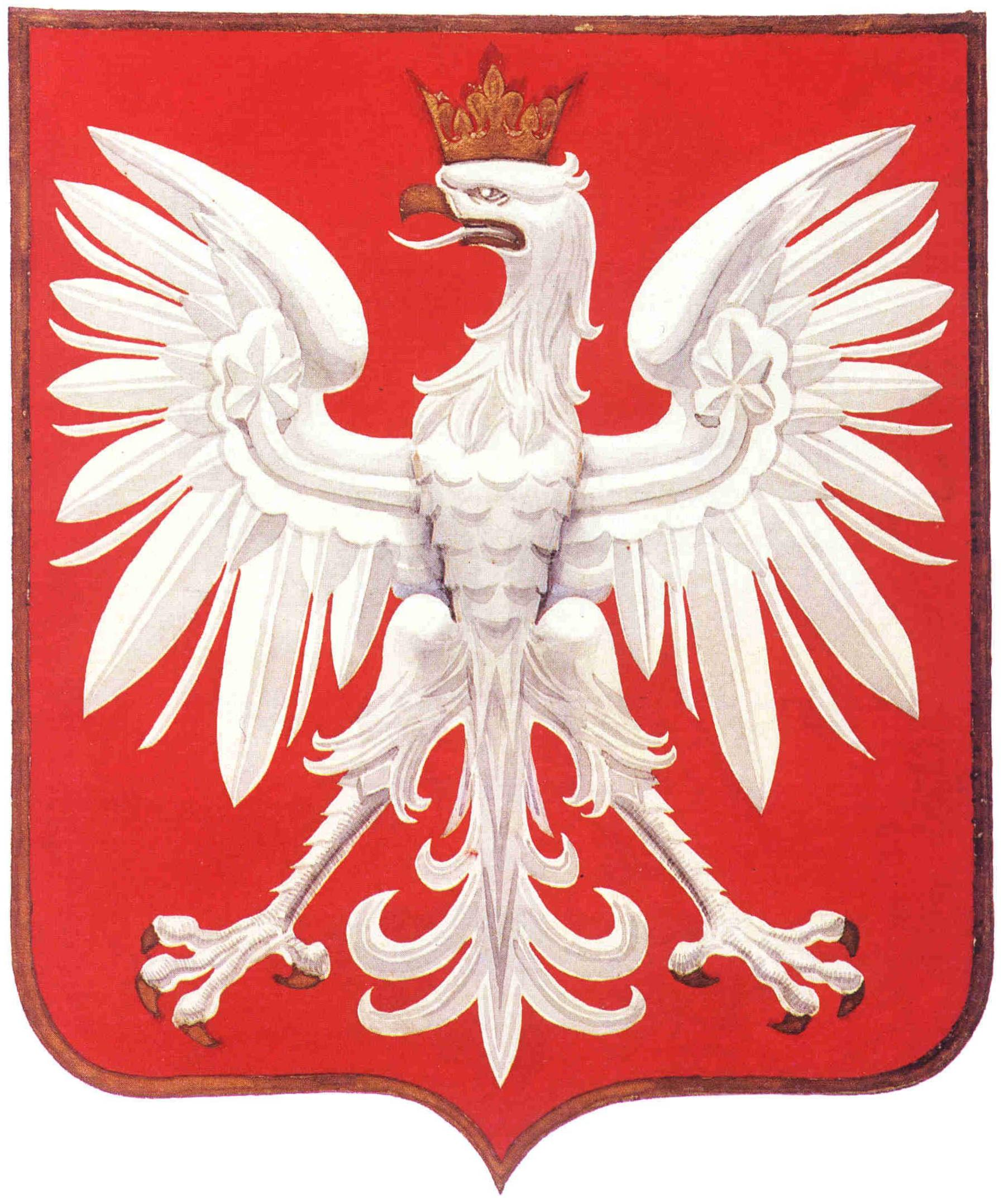 Project of the coat of arms of Poland by Zygmunt Kamiński, 1927; owner Leszek Pudłowski (deposit: the Royal Castle in Warsaw - Museum).